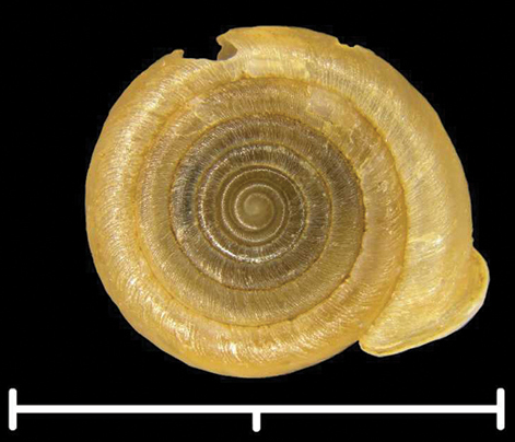 Photo of apical view of a shell of Gudeodiscus messageri raheemi. Scale bar is 20 mm. Locality: 11L06, Laos, Luang Prabang Province, ca. 18 km SE of Muang Xiang Ngeun, on the left side of Nam Khan, limestone, black soil in limestone pockets, clay, under rocks and logs in old forest, 455 m a.s.l., 19°40.931'N, 102°19.743'E, leg. A. Abdou & I.V. Muratov, 30.10.2006, MNHN 2012-27054/38 shells (some of them are broken/juvenile) + anatomically examined specimen.